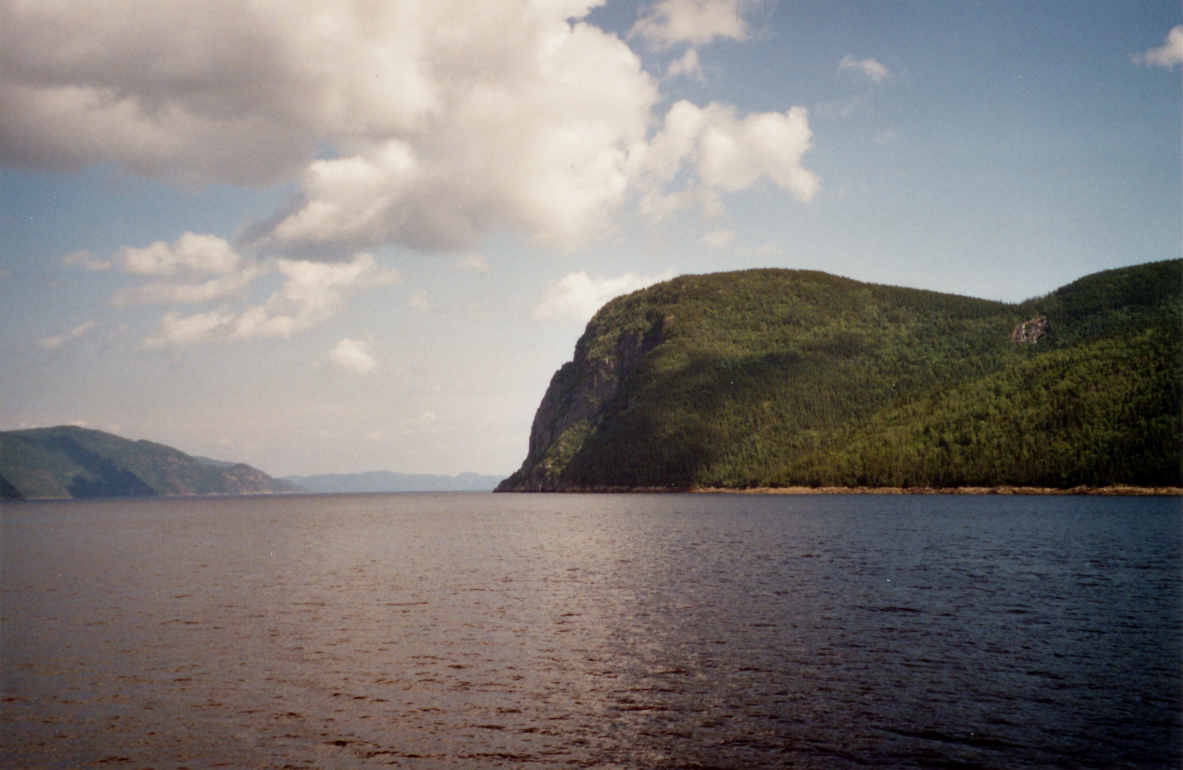 Cap Éternité, Fjord-du-Saguenay national park, Quebec, Canada, july 2005.